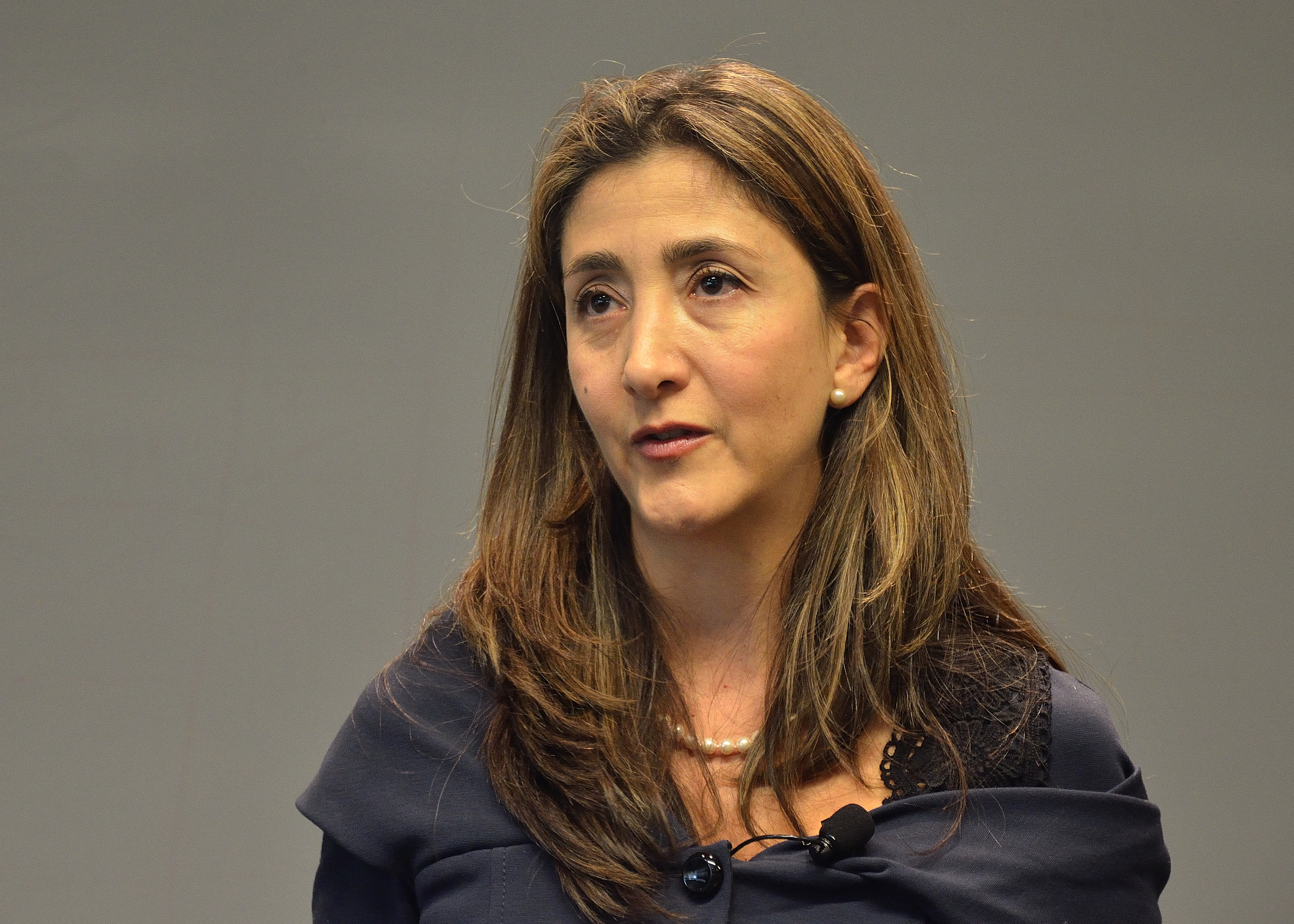 Íngrid Betancourt speaks to the Microsoft Political Action committee about what she learned about herself and others during her captivity.